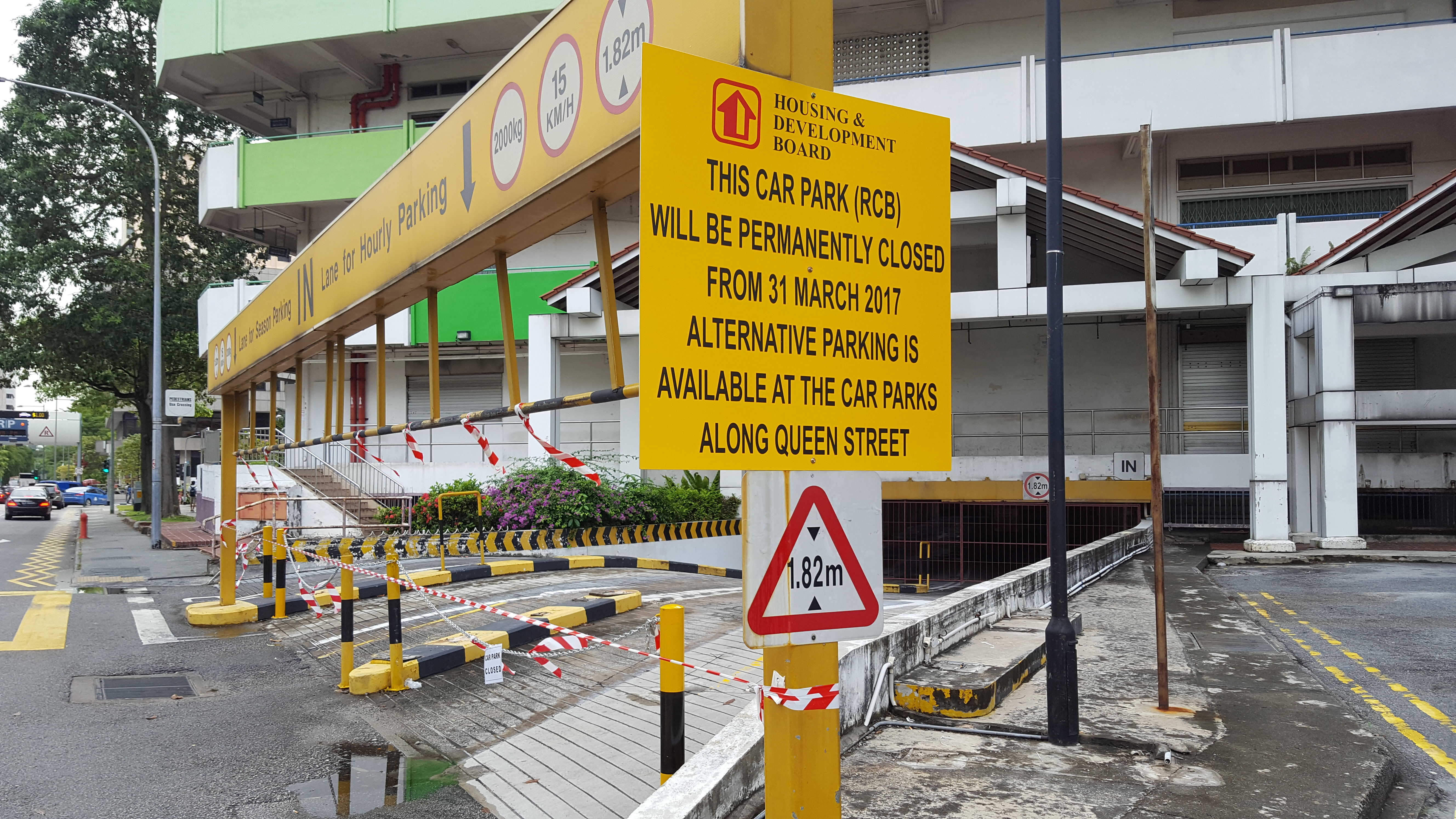 This picture shows a signboard of the carpark closing on 31 March 2017.